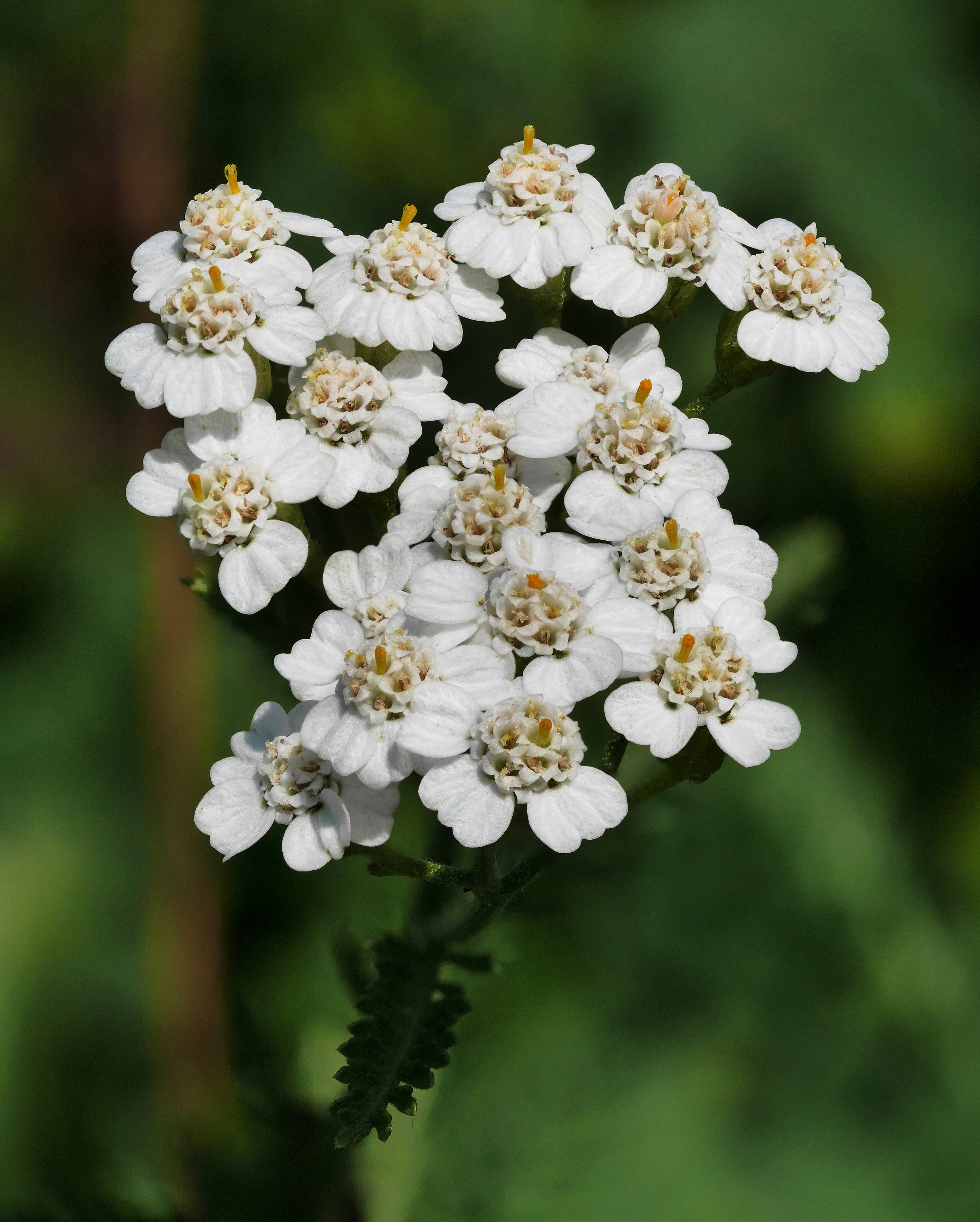 Yarrow (Achillea millefolium) on top of Janče hill (800 m), Slovenia. Size of flower is around 3×3 cm. Stack of 9 macro photos.